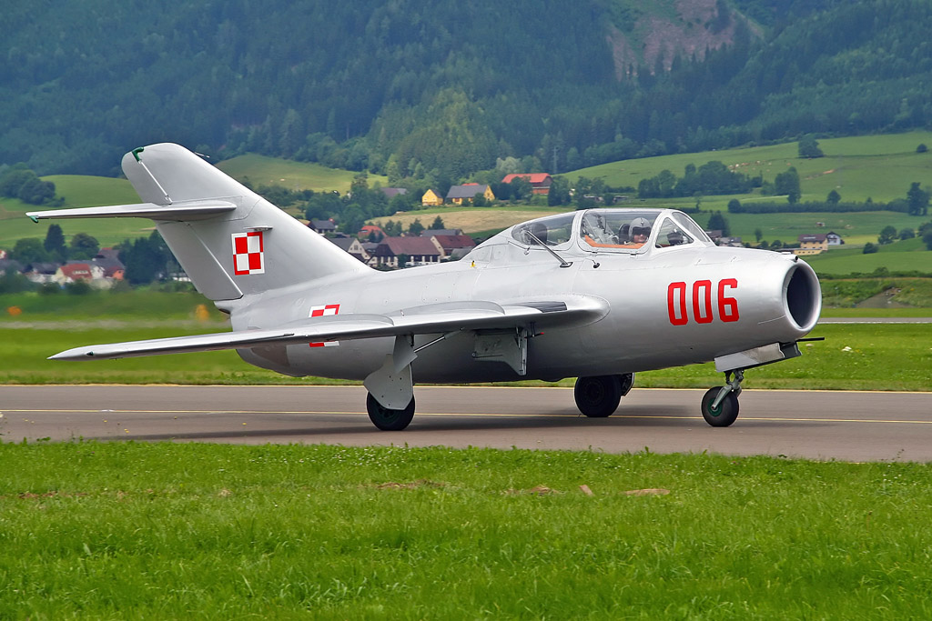 Mikoyan-Gurevich MiG-15UTI